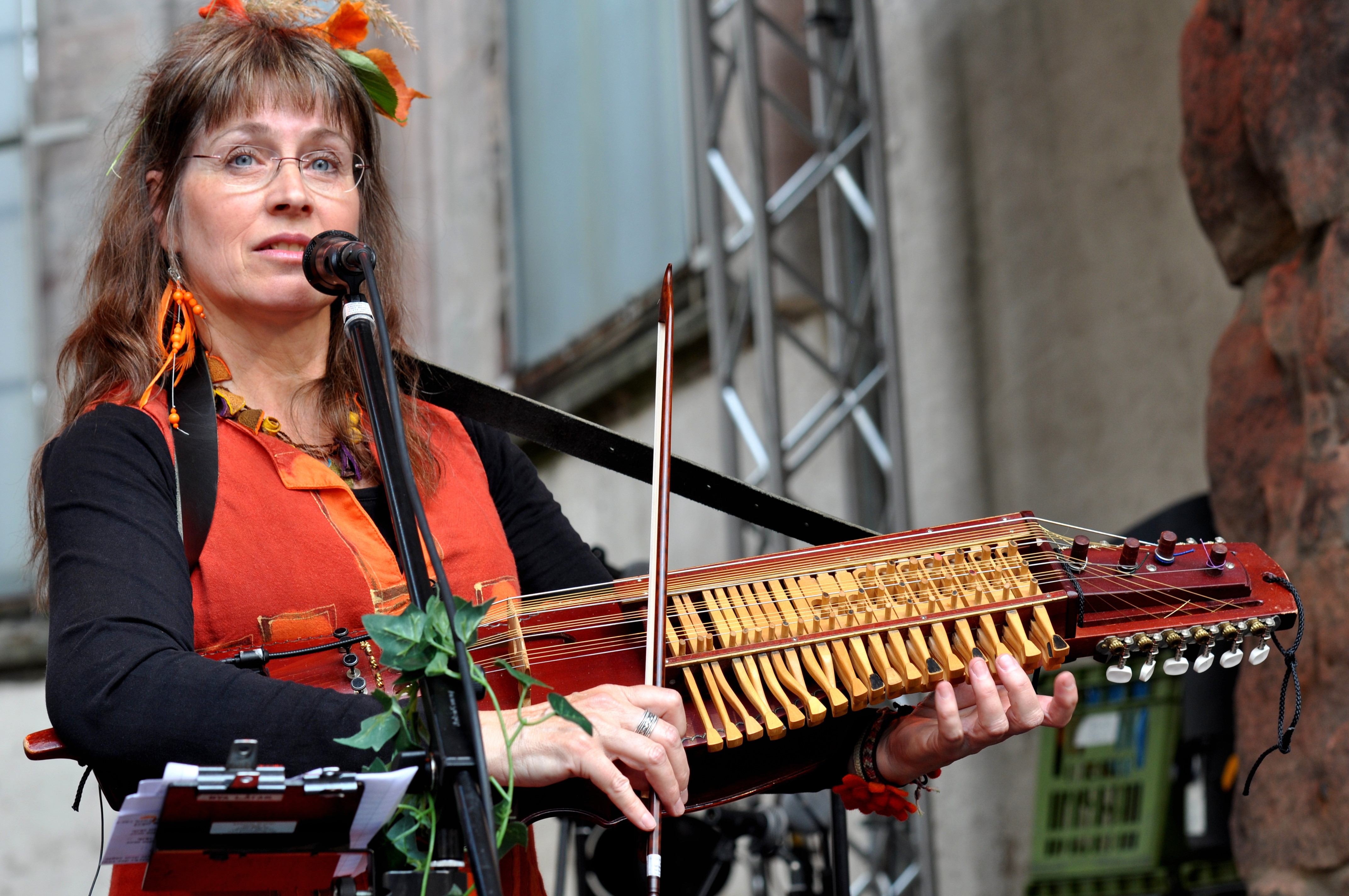 Huldrelokkk (NOR / SWE / DNK / D), St. Katharina stage, 40th music festival 'Bardentreffen' 2015 at Nuremberg, Germany Festivalsommer This photo was created with the support of donations to Wikimedia Deutschland in the context of the CPB project "Festival Summer".